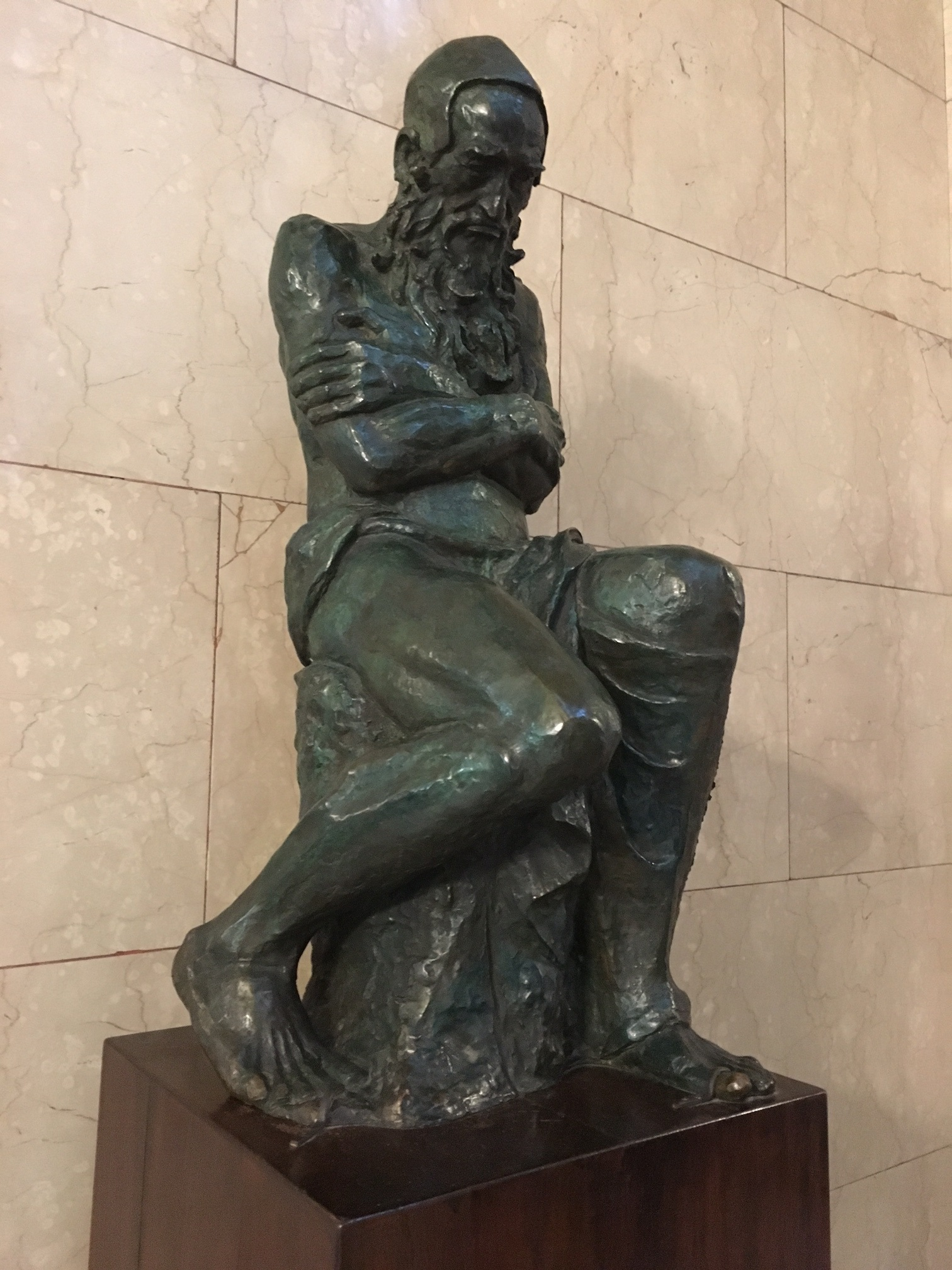 Statue of Jeremiah by Enrico Glicenstein on display in Special Collections at Cleveland Public Library. Inscription on wooden base reads: Jeremiah by Enrico Glicenstein The Gift of Jews of Cleveland to the Cleveland Public Library